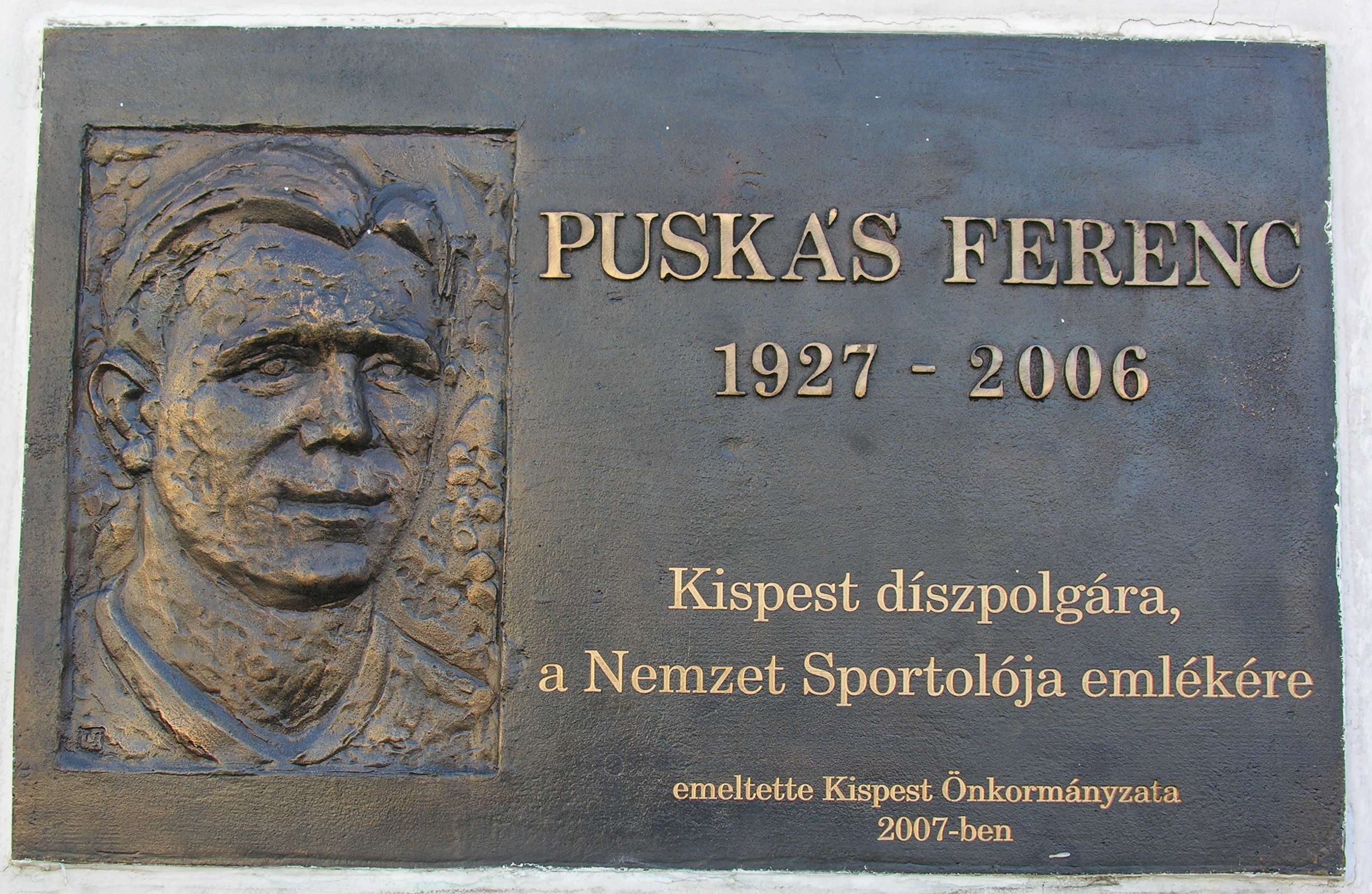 Commemorative plaque of Ferenc Puskás, Budapest District XIX, Puskás Ferenc Street No 1, Bozsik Stadium